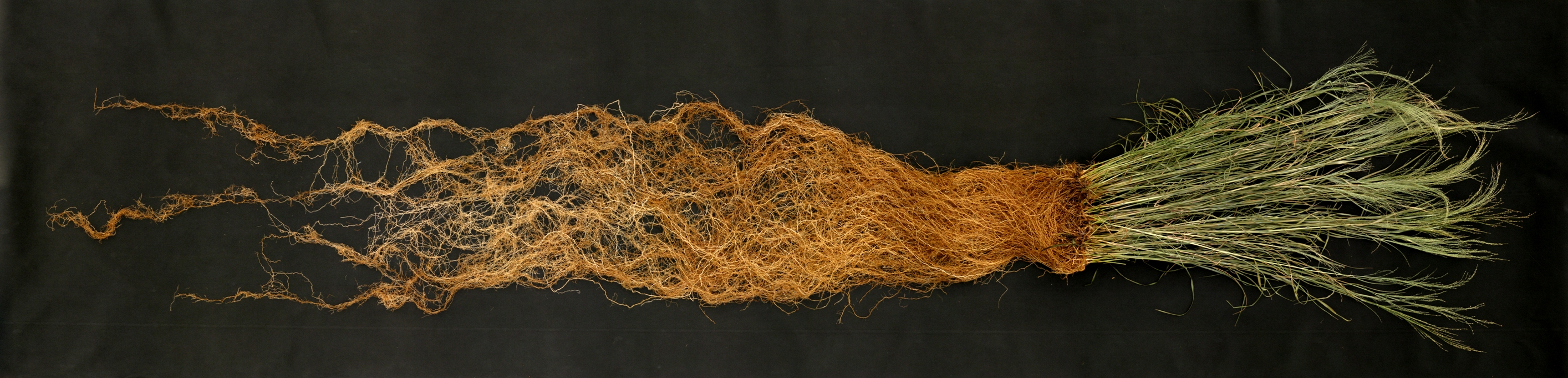 Gigapan image of switchgrass roots taken at The Land Institute.